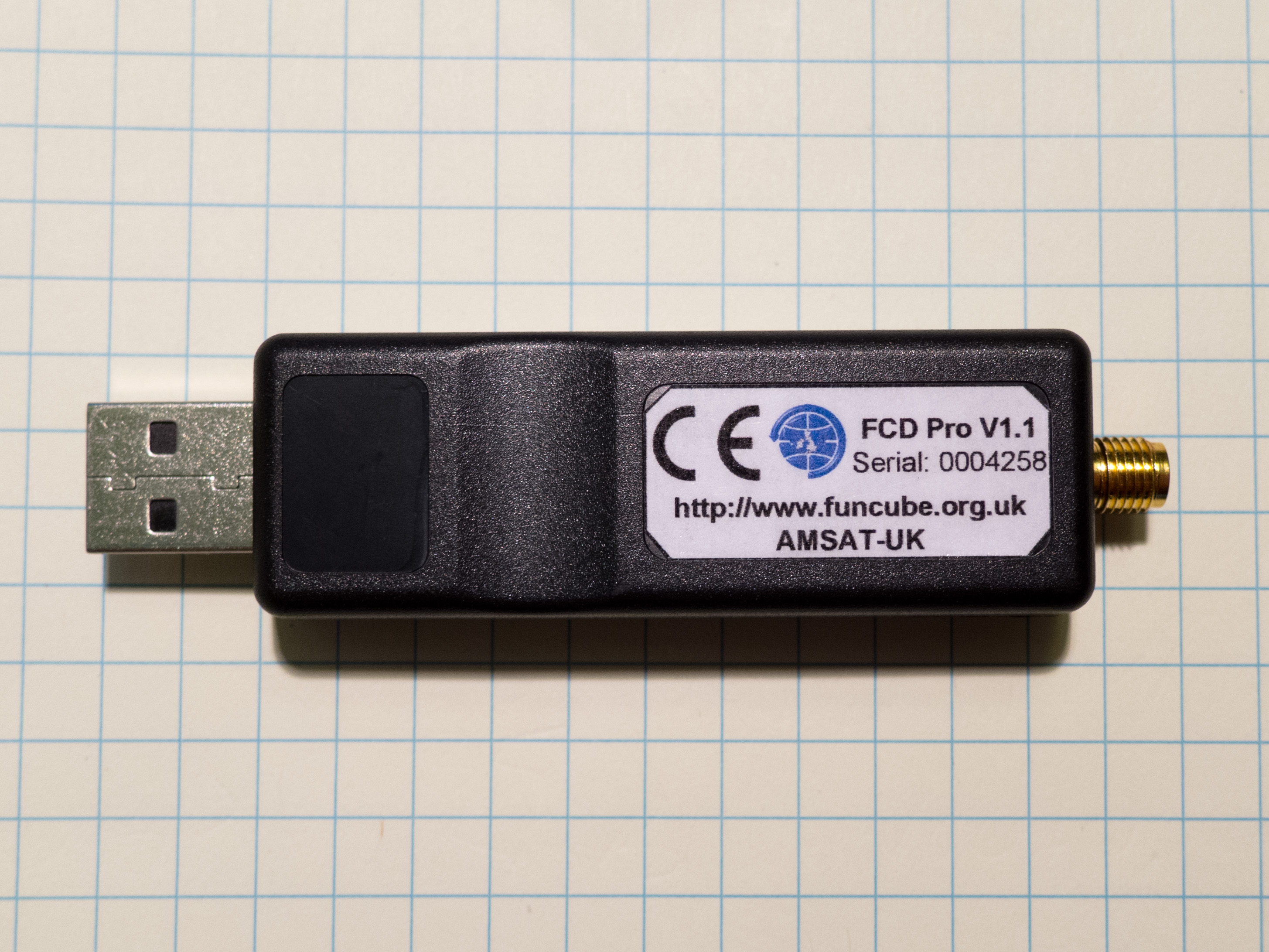 miniaturized SDR receiver by AMSAT-UK for 150kHz to 240MHz and 420MHz to 1.9GHz with USB plug left and SMA antenna plug right